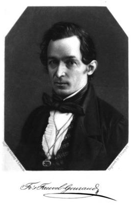 Portrait of Francis Fauvel-Gouraud, engraved by T. Doney [New York], after a daguerreotype of Anthony K. Edwards.